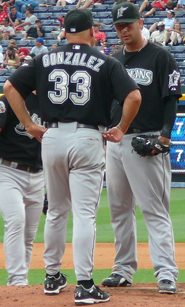 Picture I took of Fredi González on 6-5-07 21:18, 7 June 2007 . . Chrisjnelson . . 185×307 (115,733 bytes)